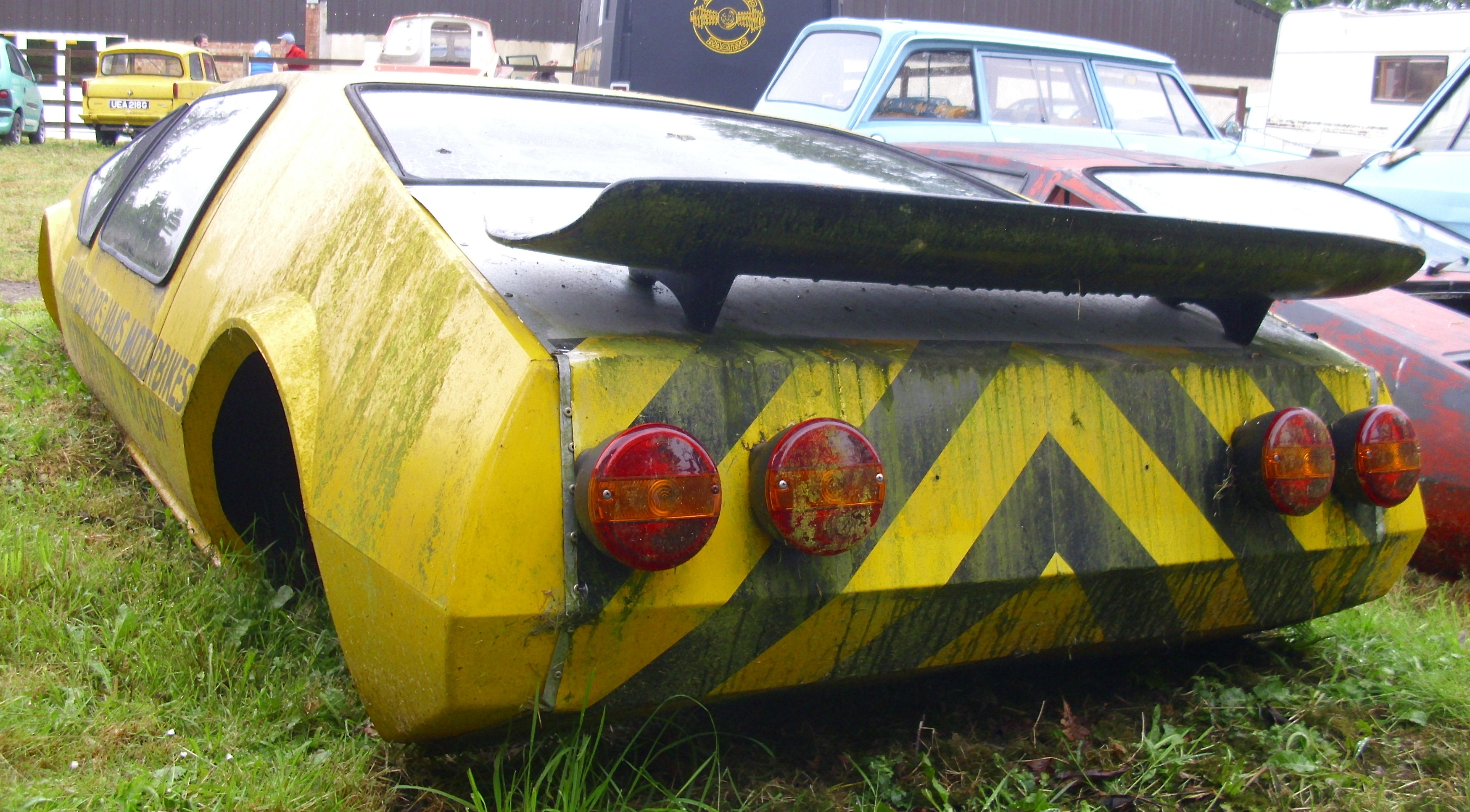 Embeesea Charger